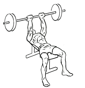 an exercise of triceps